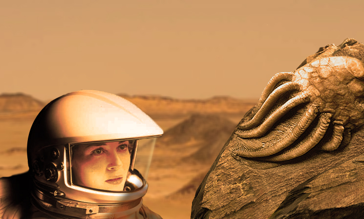 Astronaut finds remains of ancient life on Mars